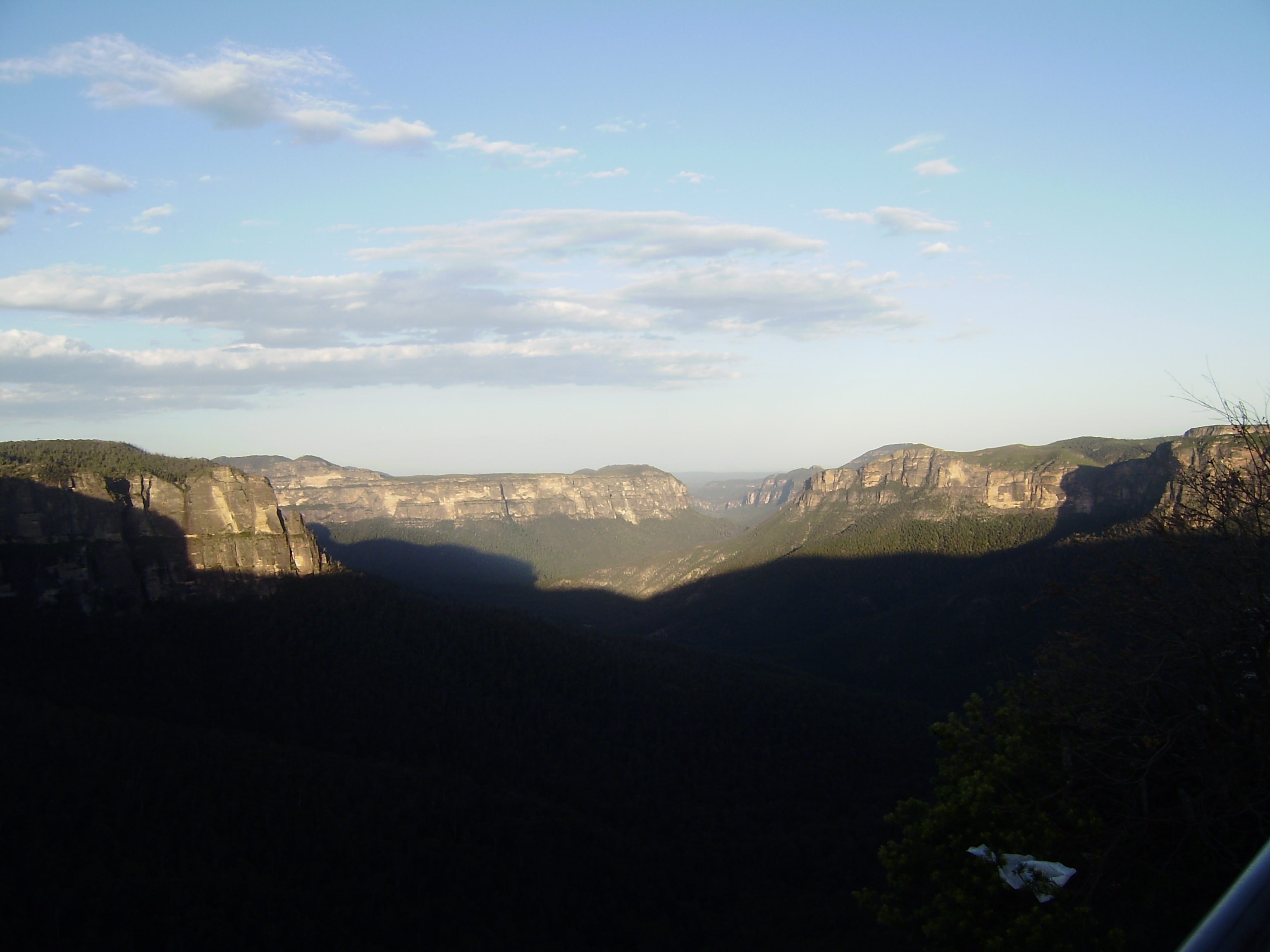 Evans Lookout, Grose Valley, Blue Mountains, NSW, Australia